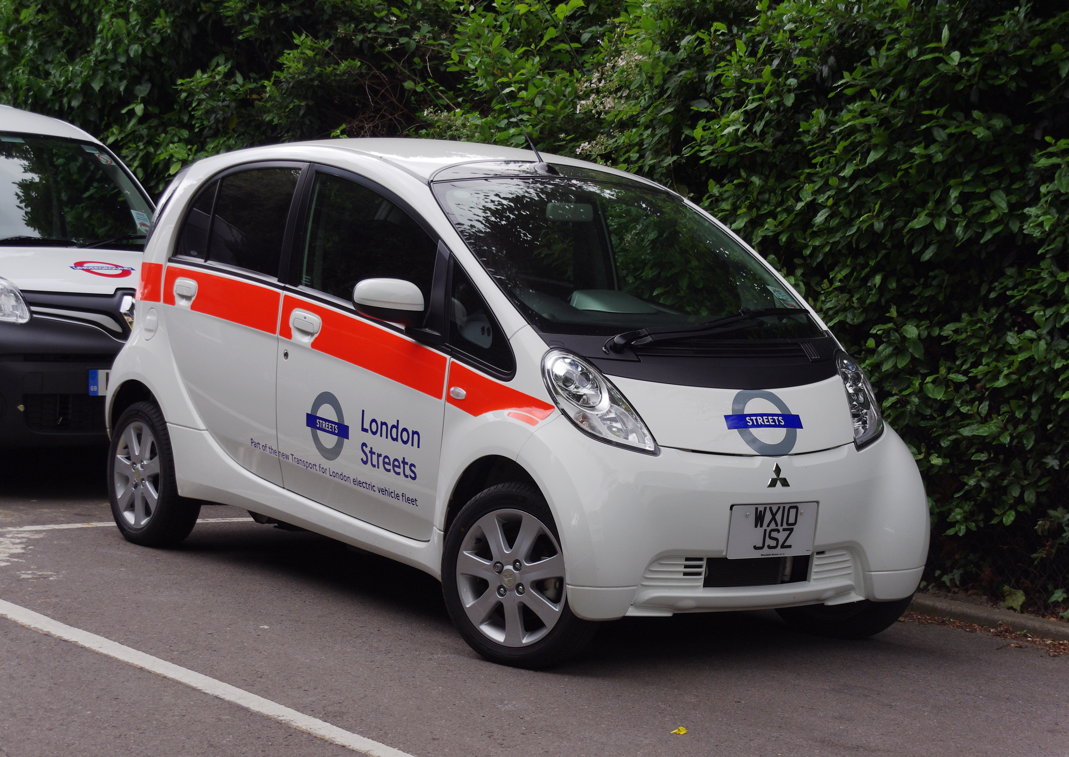 A London Streets Mitsubishi i-MiEV parked at London Underground's Acton Works.